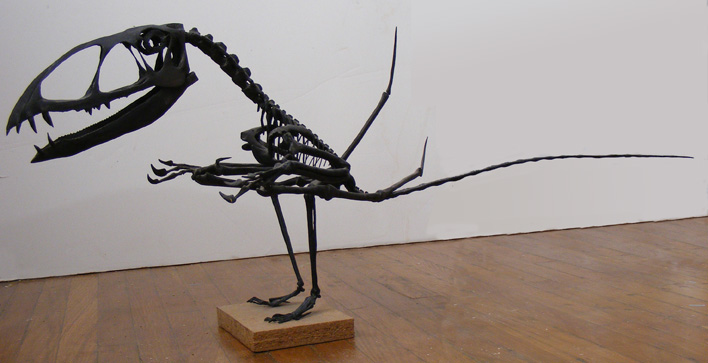 Skeletal model of Dimorphodon macryonx, an Early Jurassic pteroaur from England.